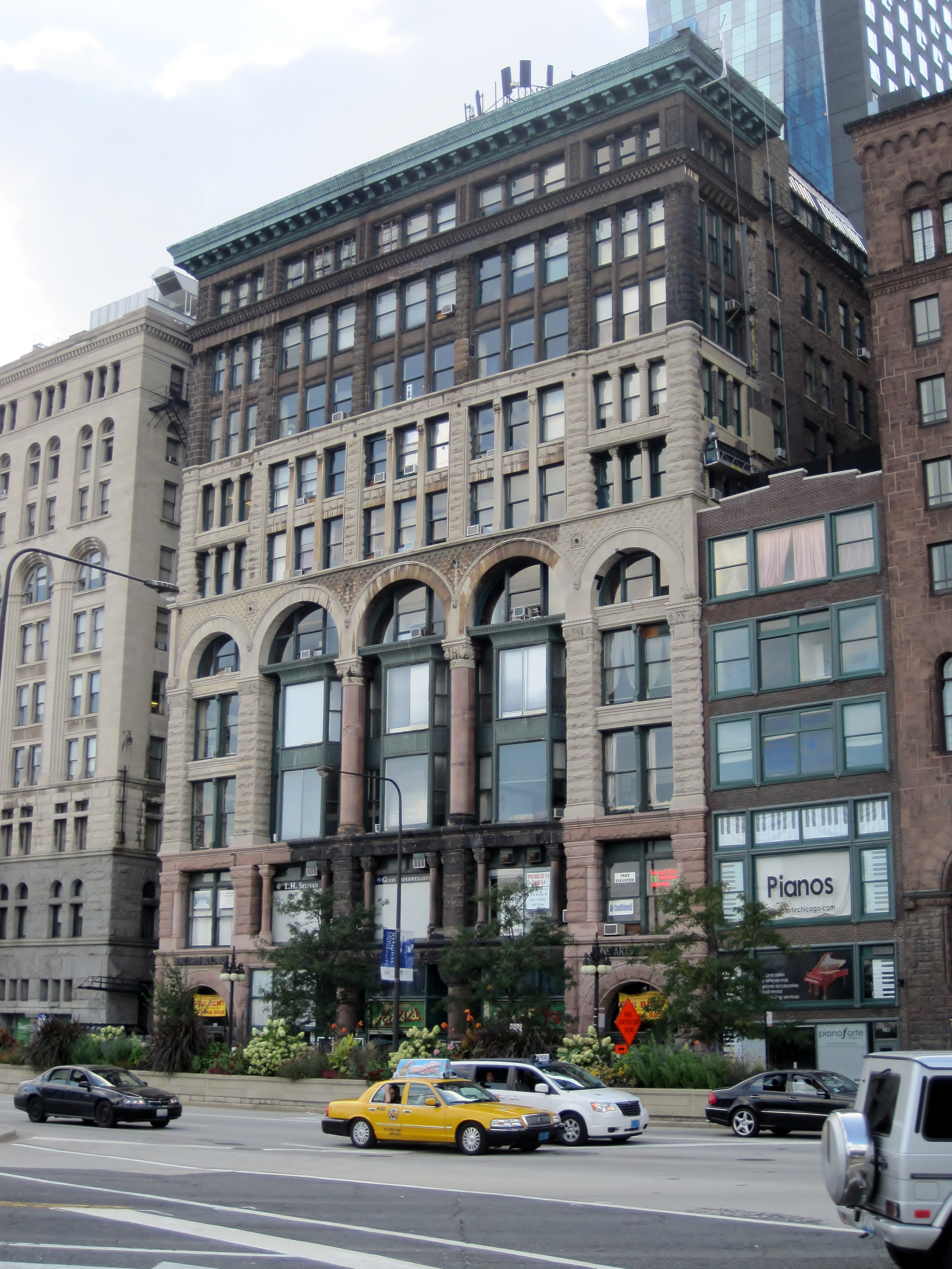 The Studebaker Building in Chicago (1898). It was built by Solon Spencer Beman for the Studebaker company in 1885. It was extensively remodeled in 1898. The Studebaker Theater is inside. Later, it became known as the Fine Arts Building, and holds offices for organizations such as the Chicago Youth Symphony and the Jazz Institute of Chicago.